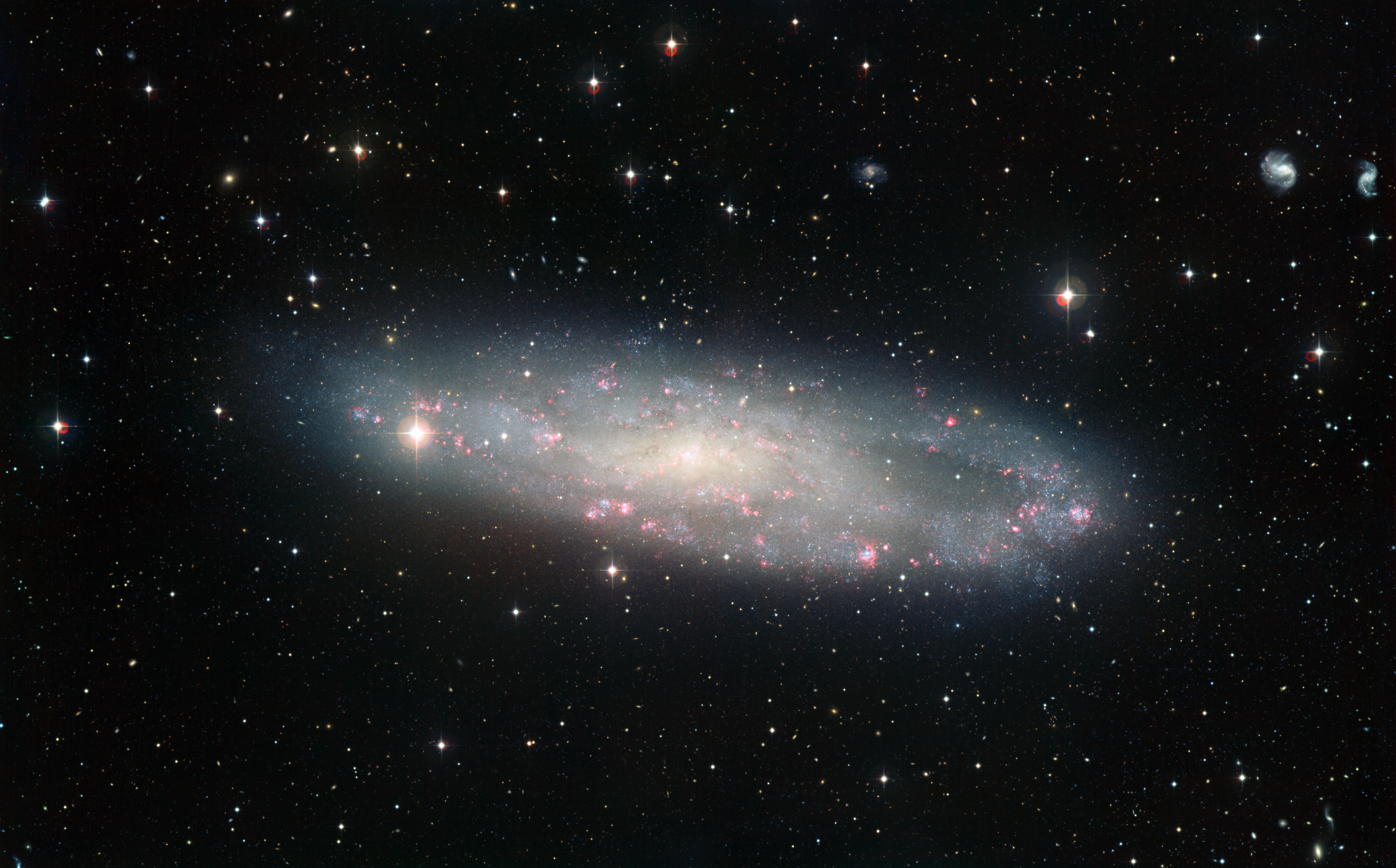 This picture of the spiral galaxy NGC 247 was taken using the Wide Field Imager (WFI) at ESO’s La Silla Observatory in Chile. NGC 247 is thought to lie about 11 million light-years away in the constellation of Cetus (The Whale). It is one of the closest galaxies to the Milky Way and a member of the Sculptor Group. Coordinates Position (RA): 0 47 1.99 Position (Dec): -20° 44' 45.83" Field of view: 33.77 x 21.00 arcminutes Orientation: North is 90.0° right of vertical Colours & filters Band Telescope Optical B MPG/ESO 2.2-metre telescope WFI Optical V MPG/ESO 2.2-metre telescope WFI Optical H-alpha MPG/ESO 2.2-metre telescope WFI Optical R MPG/ESO 2.2-metre telescope WFI .